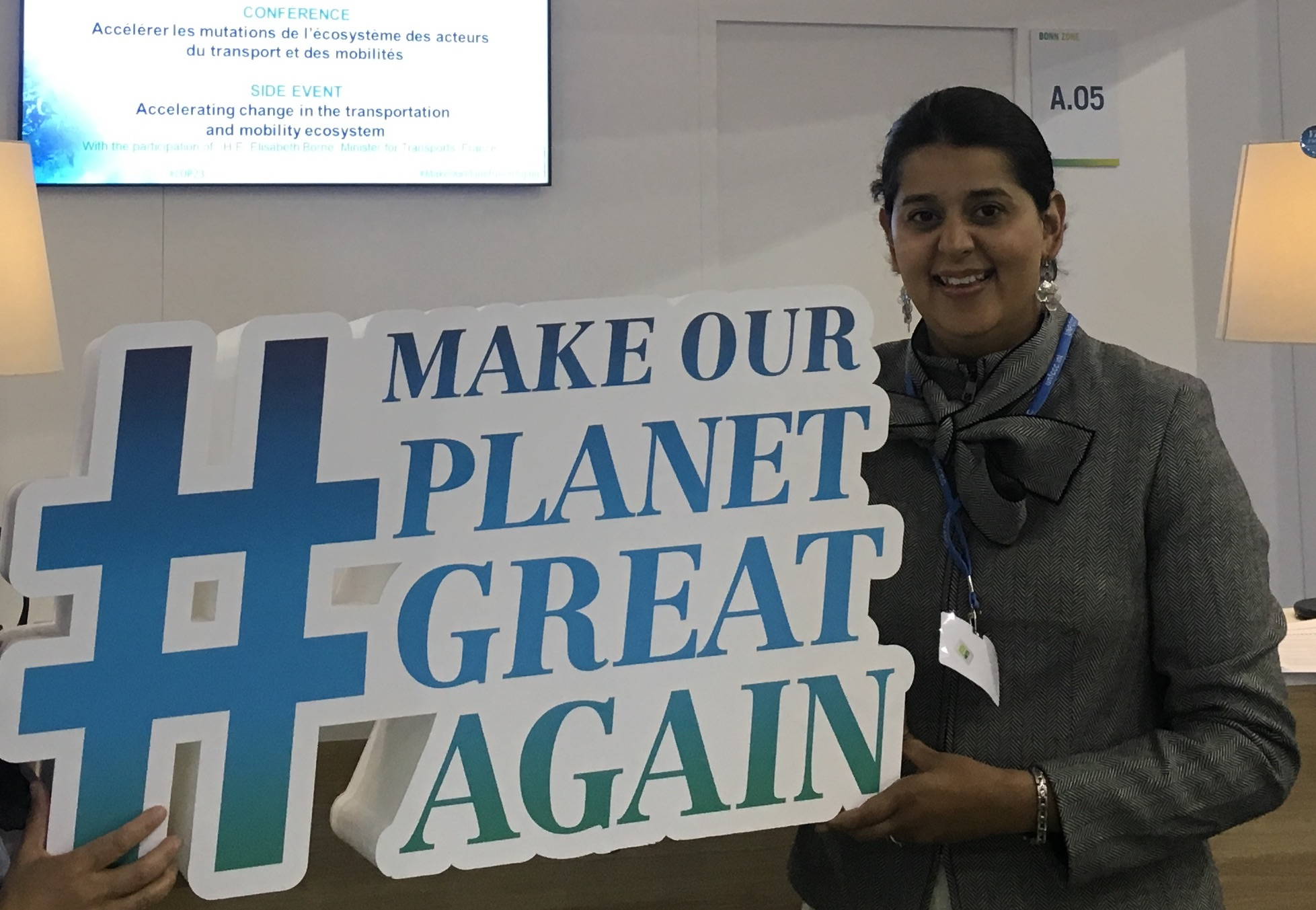 This image is a cropped version of an image uploaded to Wikimedia Commons from Yorkspace Institutional Repository, of Prof. Sapna Sharma at the United Nations Climate Change Negotiations, COP23, in 2017